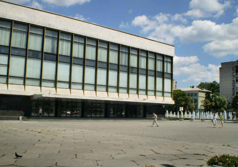 Opera house in Dnipropetrovsk